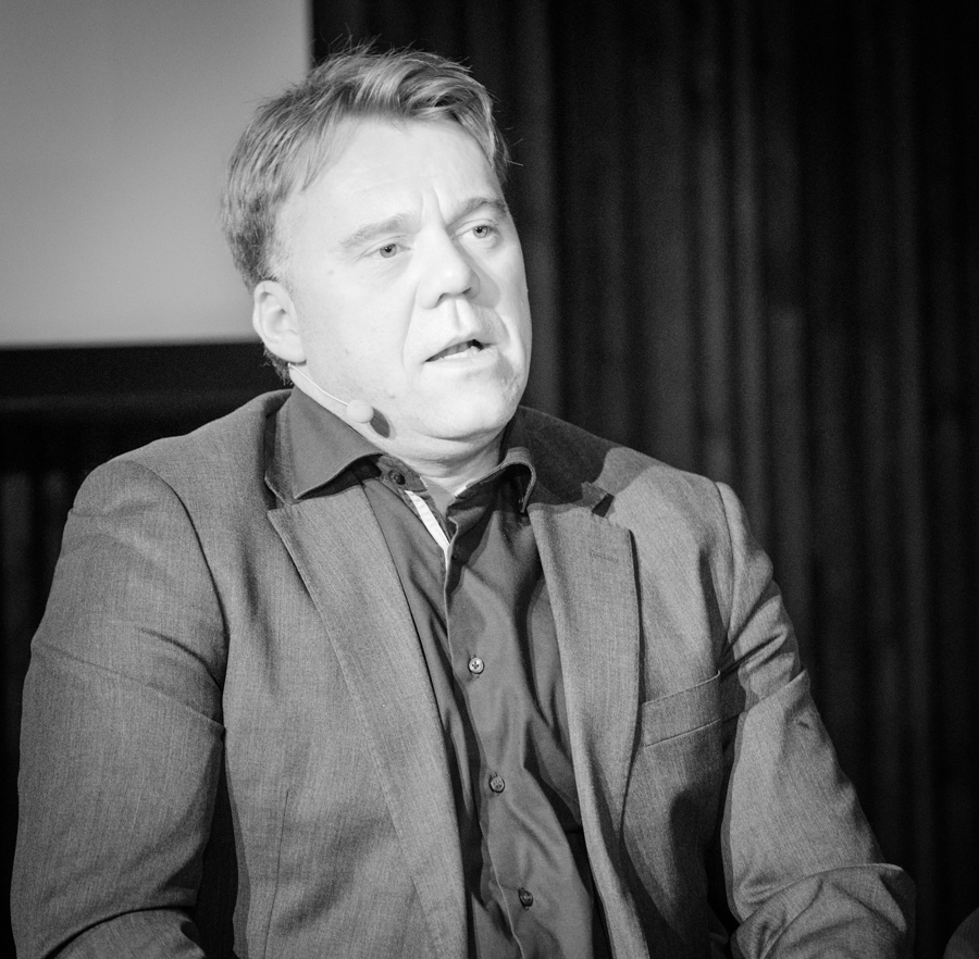 Øystein Bogen at the debate Russland og Ukraina – Hva betyr det for Norge? at Kulturhuset. The event took place on 14. February 2018 in Oslo. Lineup: Øystein Bogen (journalist), Lene Wetteland (researcher or scientist), Eirik Sivertsen (politician), Michael Tetzschner (politician), Hedda Langemyr (host) and Unidentified (researcher or scientist).